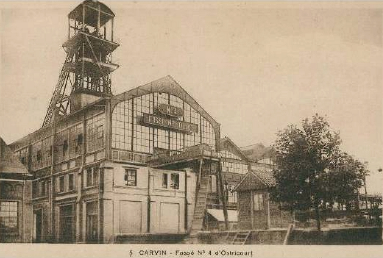 Pit n° 4 of the Compagnie des mines d'Ostricourt, Carvin, Pas-de-Calais, France.